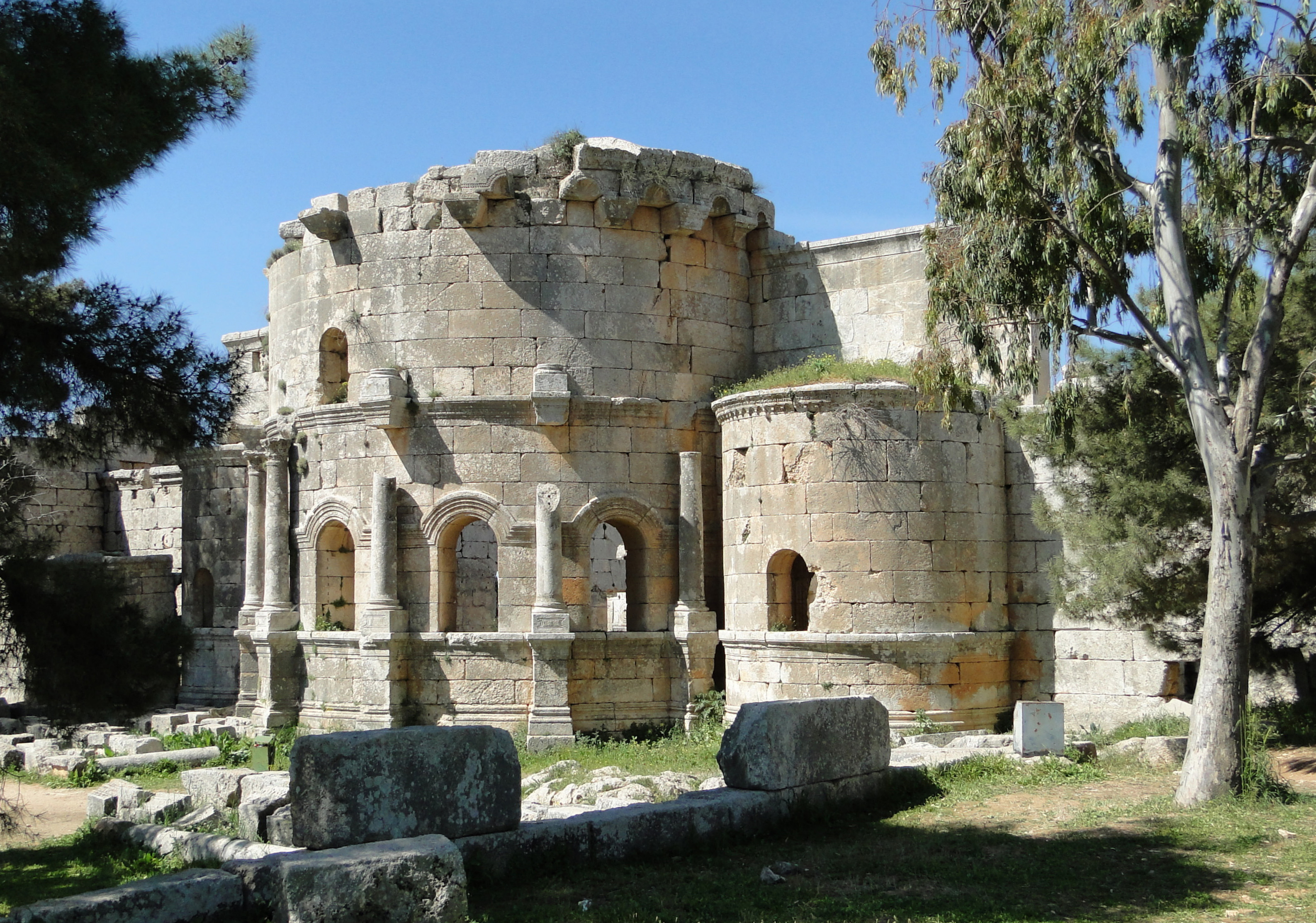 Apse of Eastern Basilica of the Church of Saint Simeon Stylites, Syria